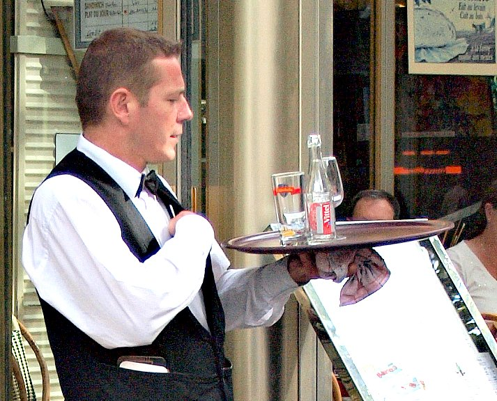 Waiter in a terrace cafe in Paris France